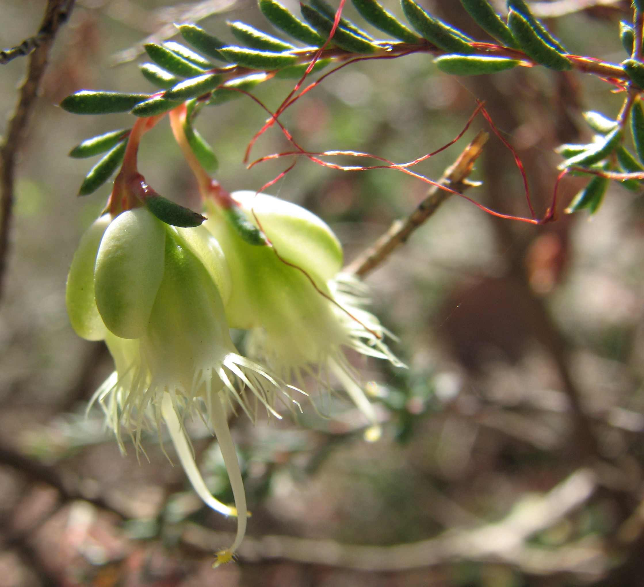 Homoranthus darwinioides (cultivated, labelled) , Maranoa Gardens, Balwyn, Victoria, Australia